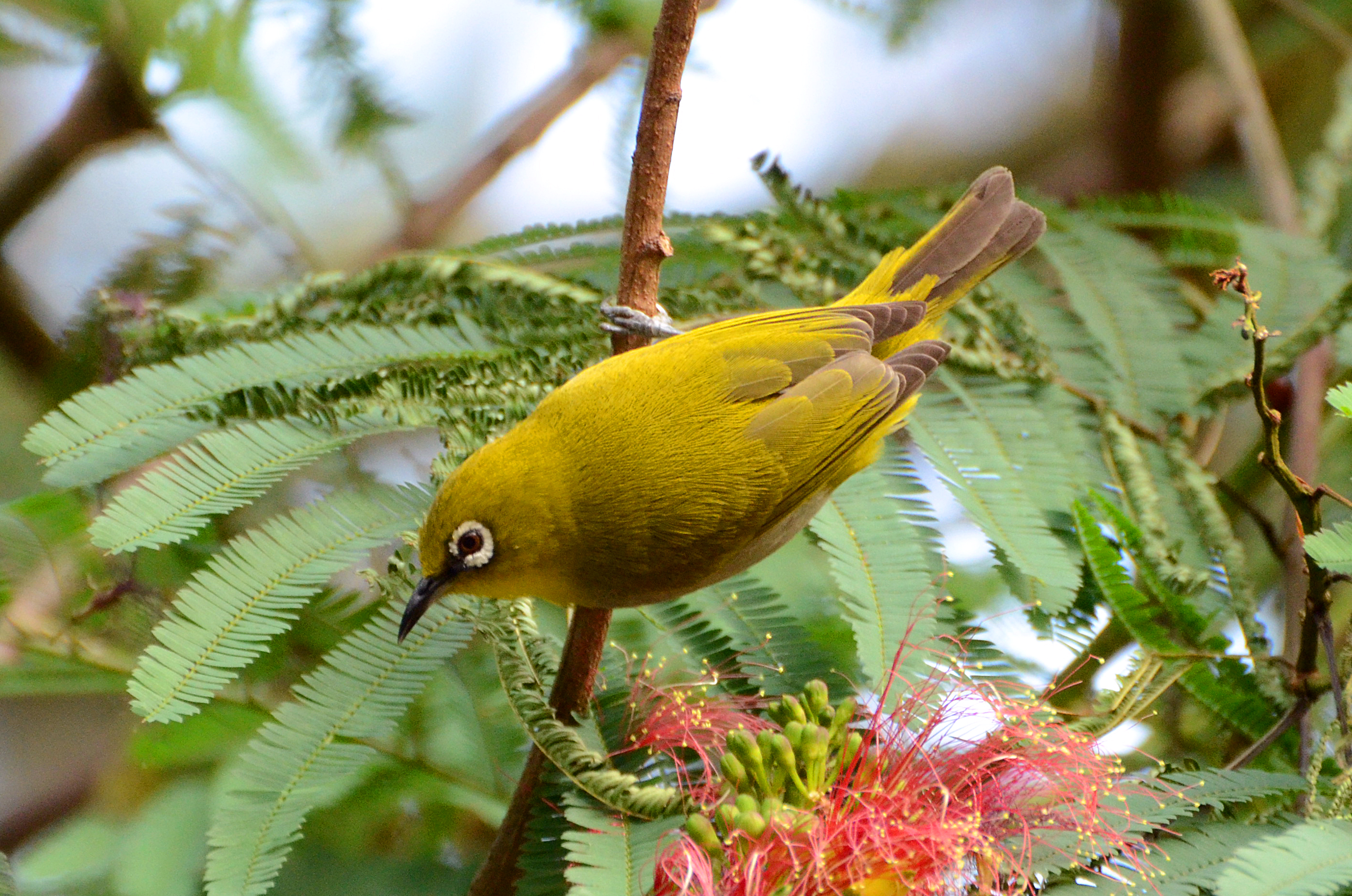 Oriental white-eye (Zosterops palpebrosus) from nilgiris